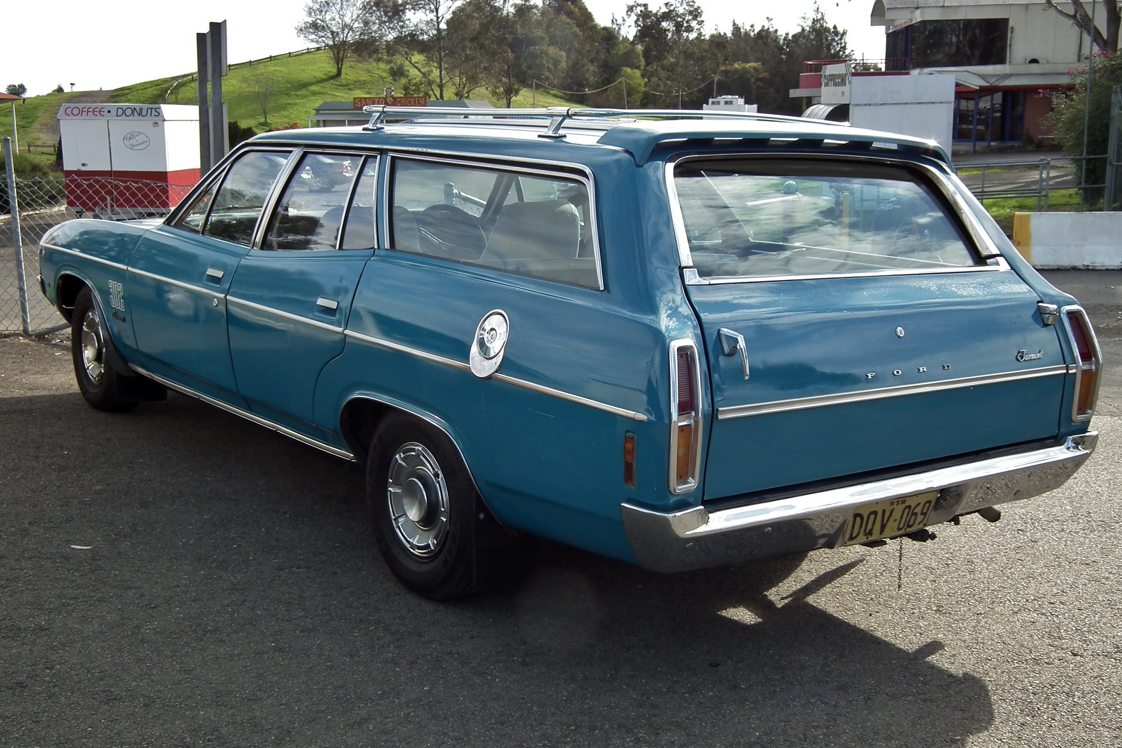 1972 Ford XA Fairmont station wagon. Taken at the 2011 New South Wales All Ford Day, held at Eastern Creek Raceway.